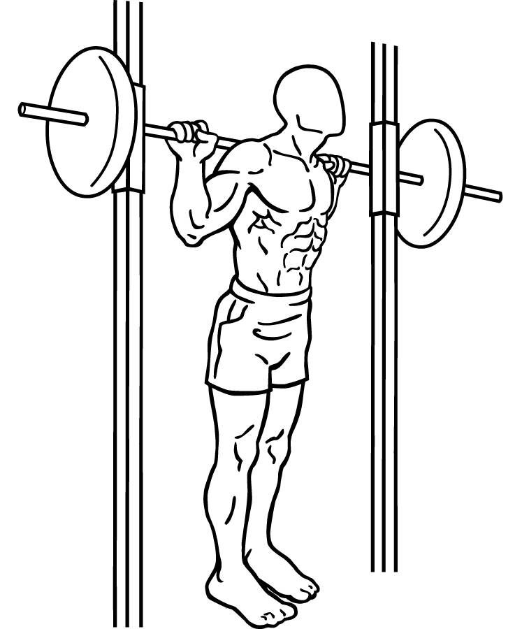 an exercise of lower back